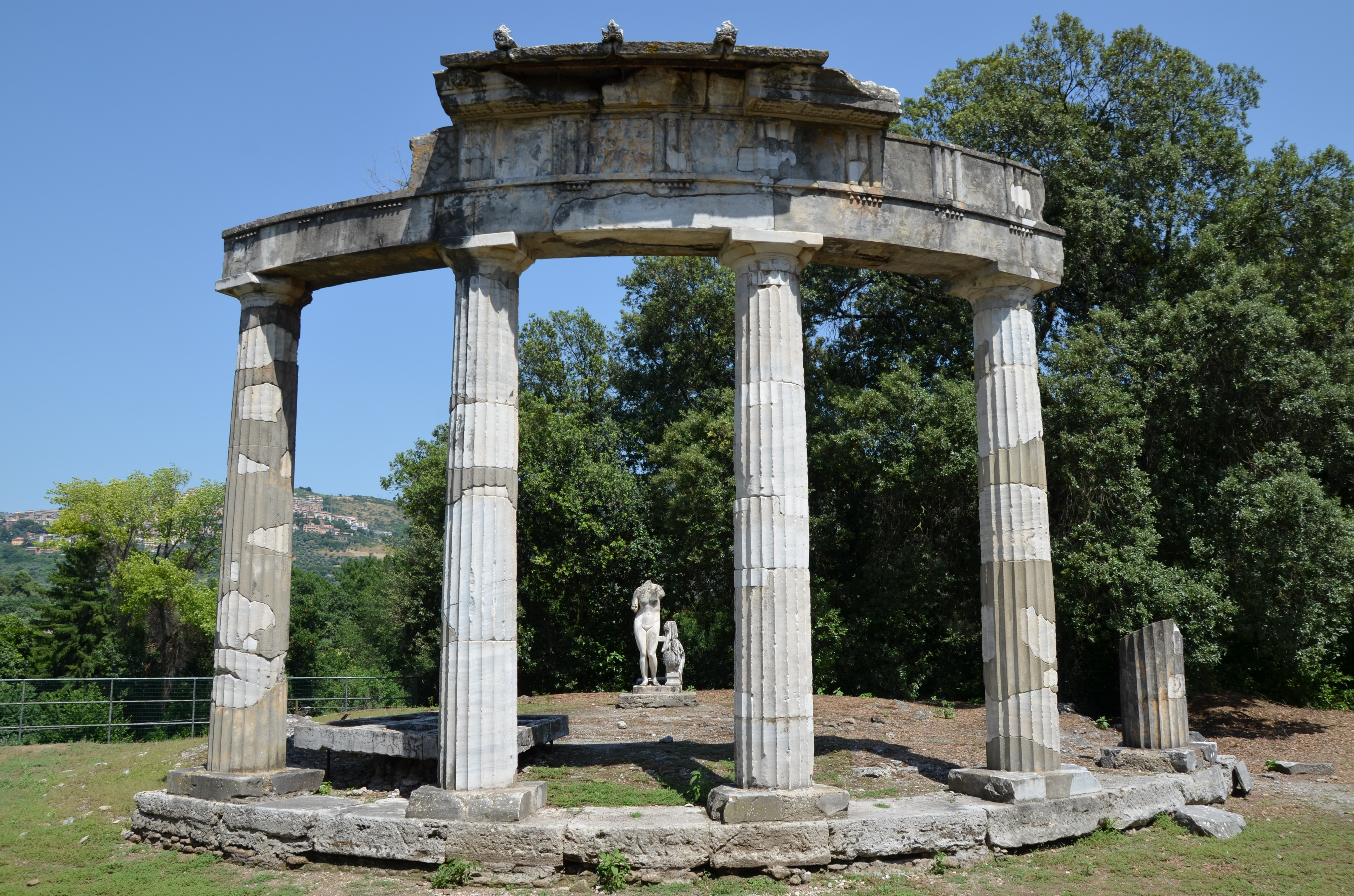 The circular temple dedicated to the Venus of Cnidus, Hadrian's Villa, Tivoli